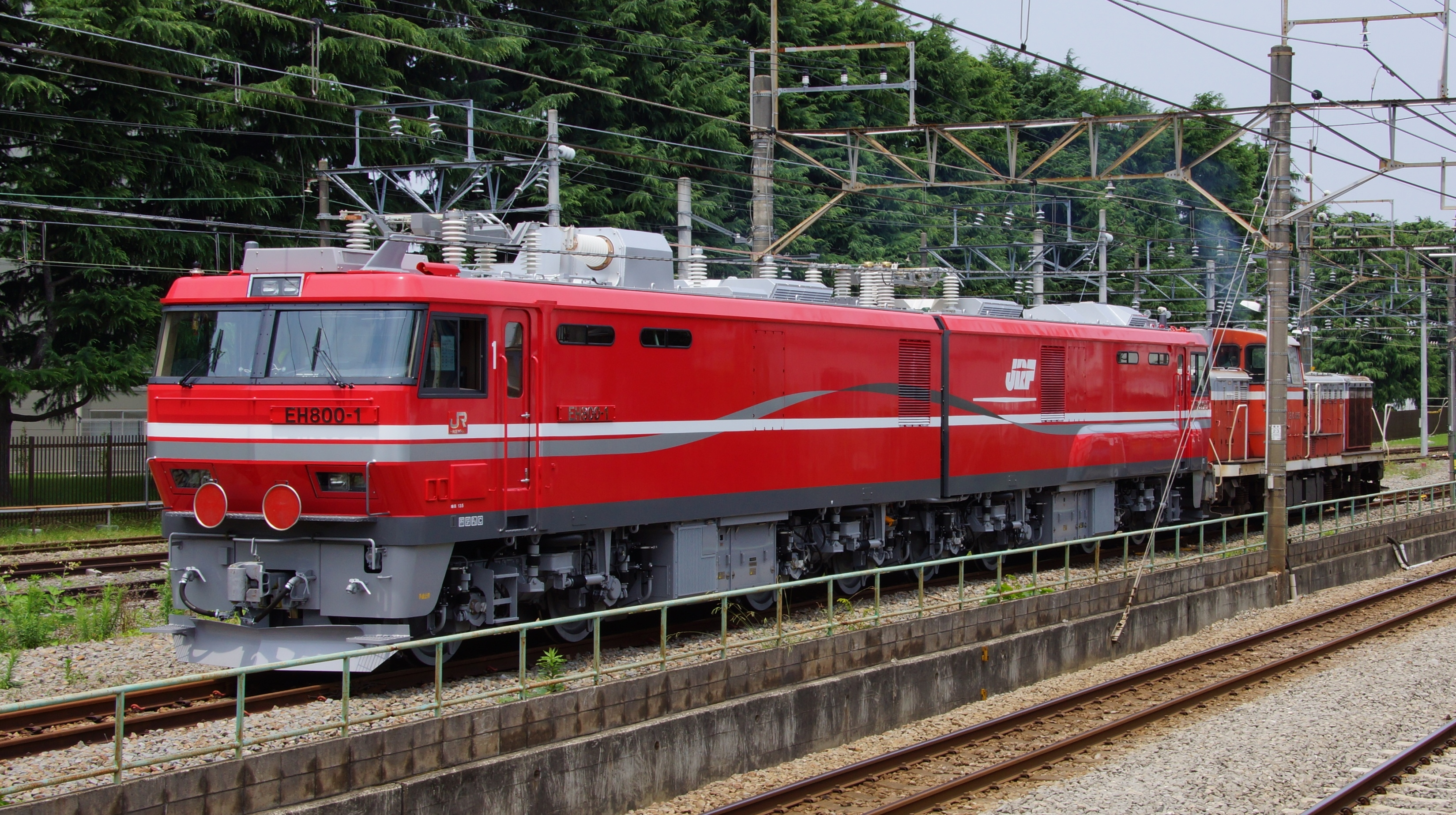 The first full-production JR Freight Class EH800 electric locomotive, EH800-1, at Kita-Fuchu on delivery from the Toshiba factory there to JR Freight's Goryokaku Depot in Hokkaido